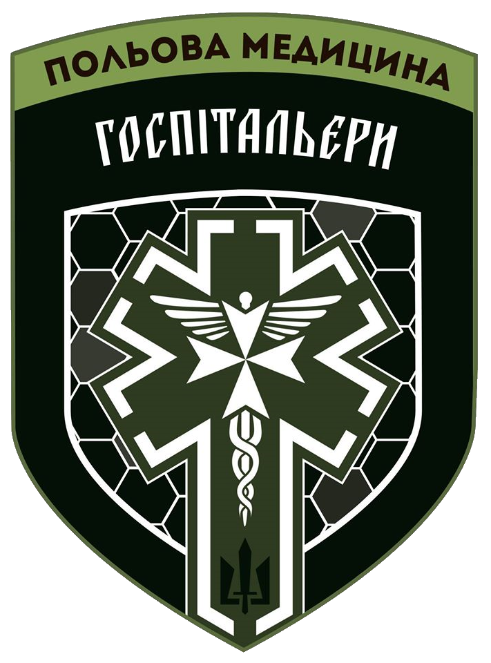 Sleeve patch detached medical battalion "Hospitallers" for the Ukrainian Volunteer Corps (UVC)